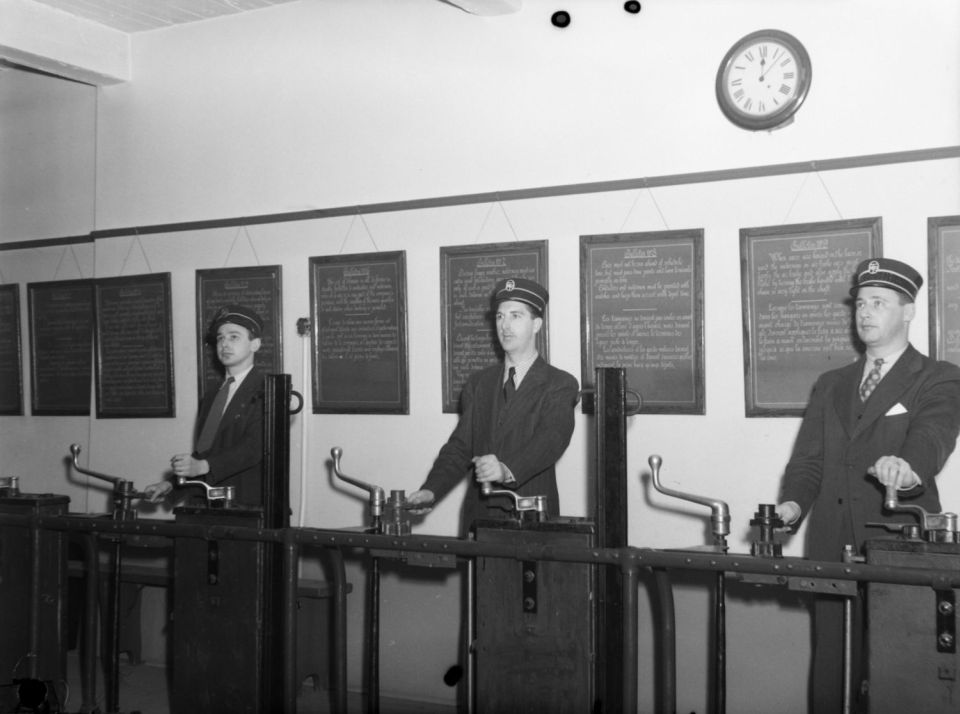 We see three wattmans training commands at a local Montreal Tramways Co. The regulations to be followed by drivers are displayed on panels at the rear.